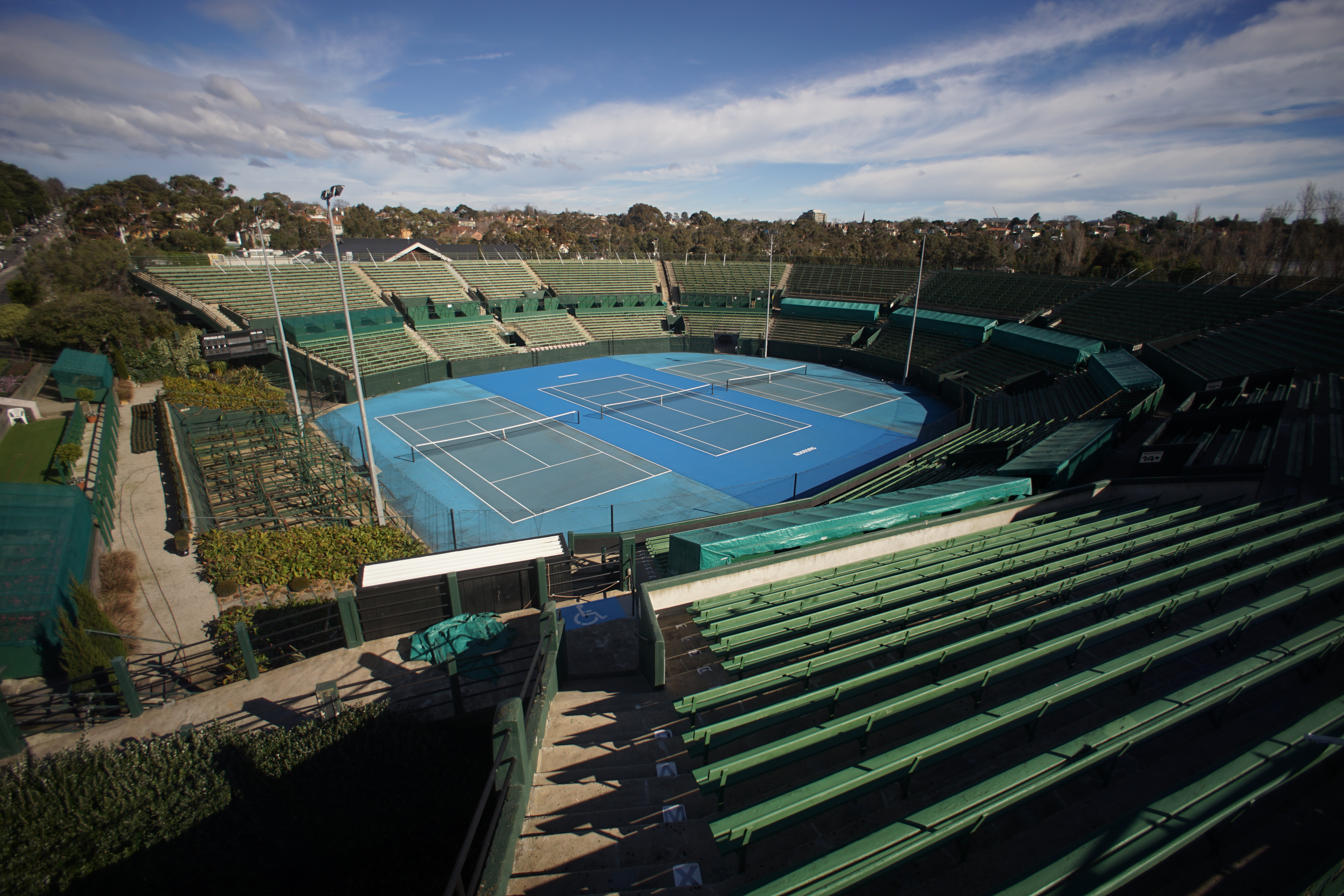 Image of centre court and grandstand seating of Kooyong tennis stadium in Melbourne Australia.